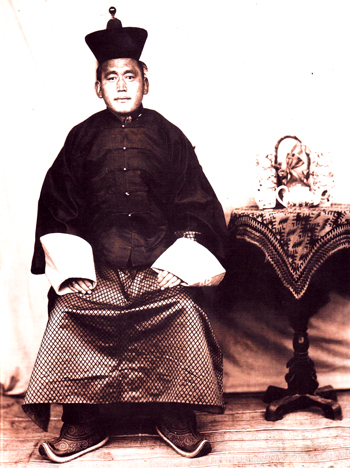 Erdene Jun Wang Namsray